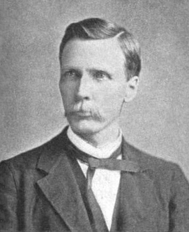 Michigan Justice Isaac Marston, The Green Bag, Vol. 2, p. 388